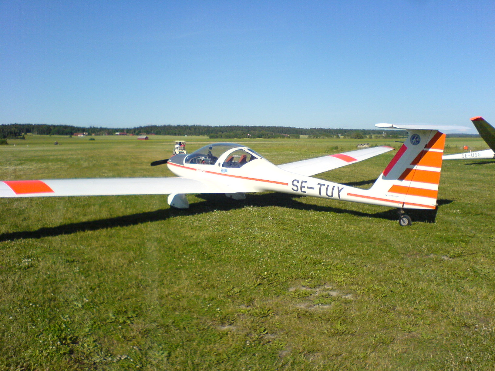 A motorglyder Hoffmann H-36 Dimona